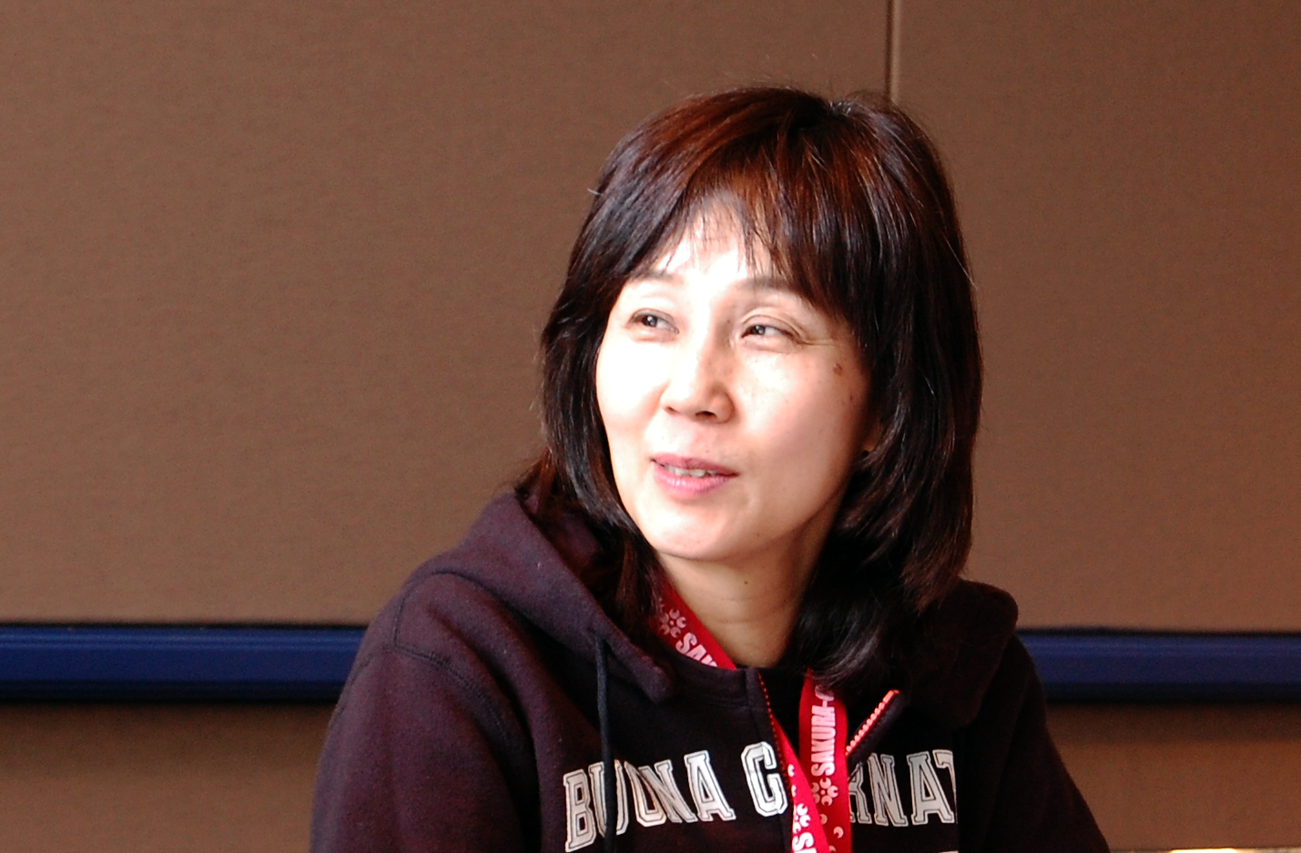 Sumi Shimamoto(島本須美) She was born in Kochi Prefecture, Japan.